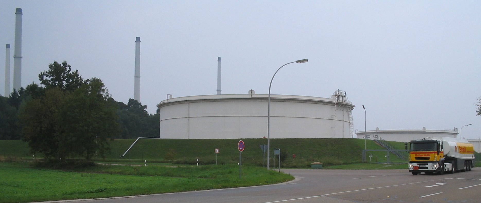 One of three process plant of the Bayernoil refinery, situated in Neustadt an der Donau, Bavaria, Germany.